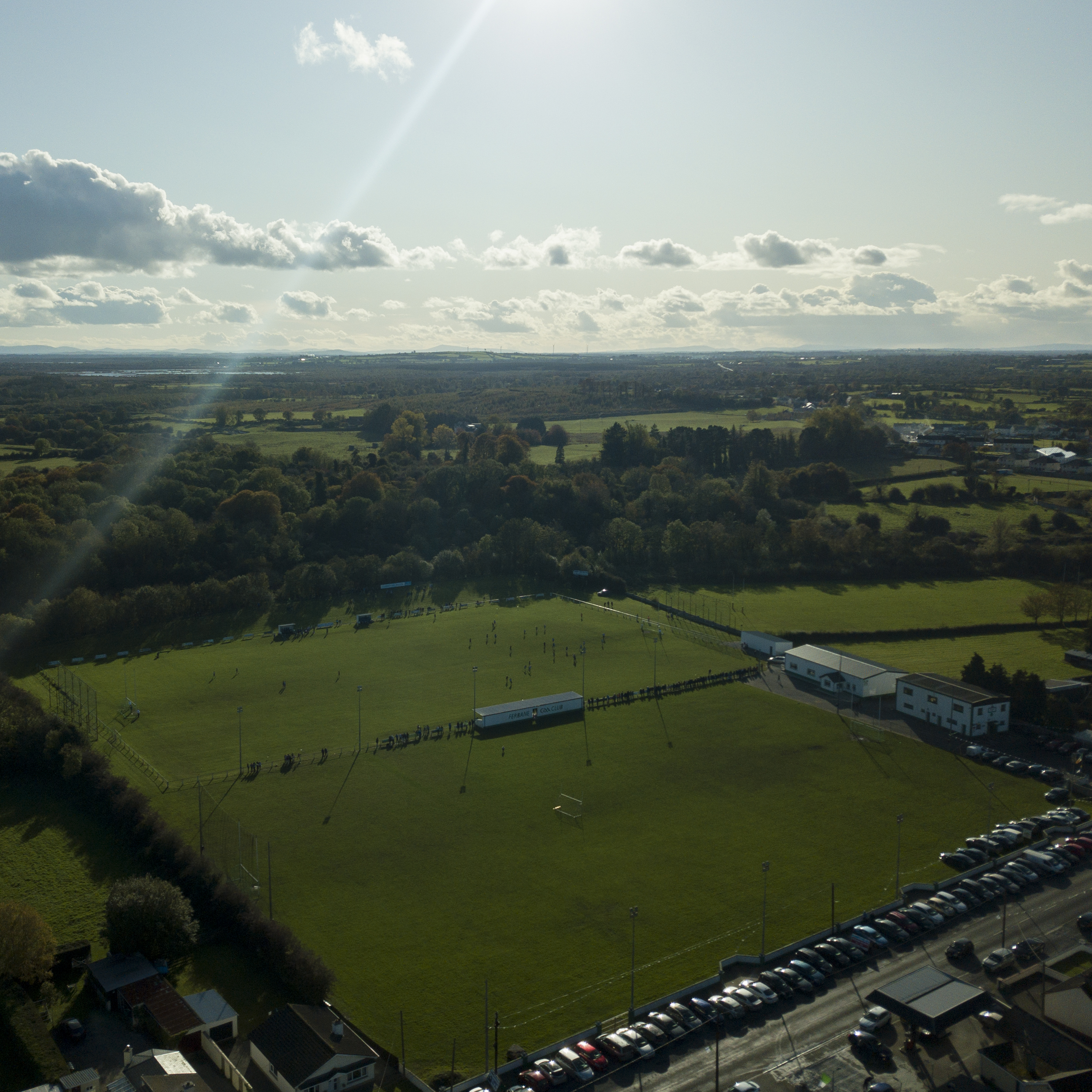 Naomh Ciaran seniors girls football playing Old Leighlin in Ferbane where Naomh Ciaran won 2-16 to 1-08